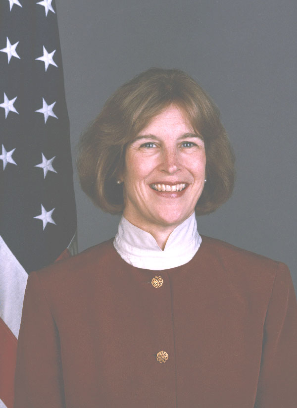 A. Elizabeth Jones